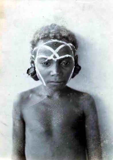 Vella Lavella girl with painted face and shell ear ornaments, Solomon islands. Original albumen photograph, c 1900 (unmounted)